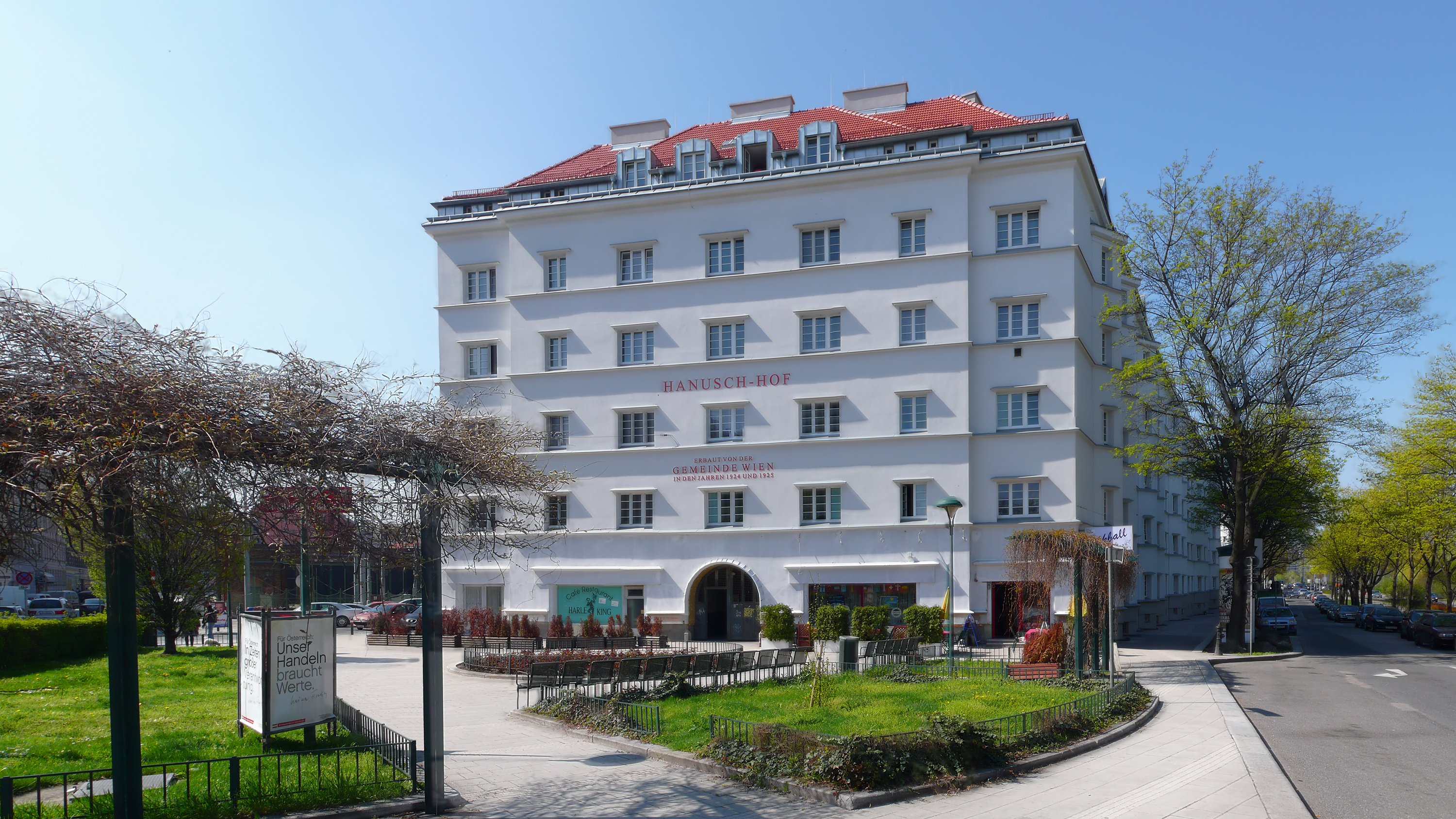 Residential Building Hanuschhof in Vienna Landstraße